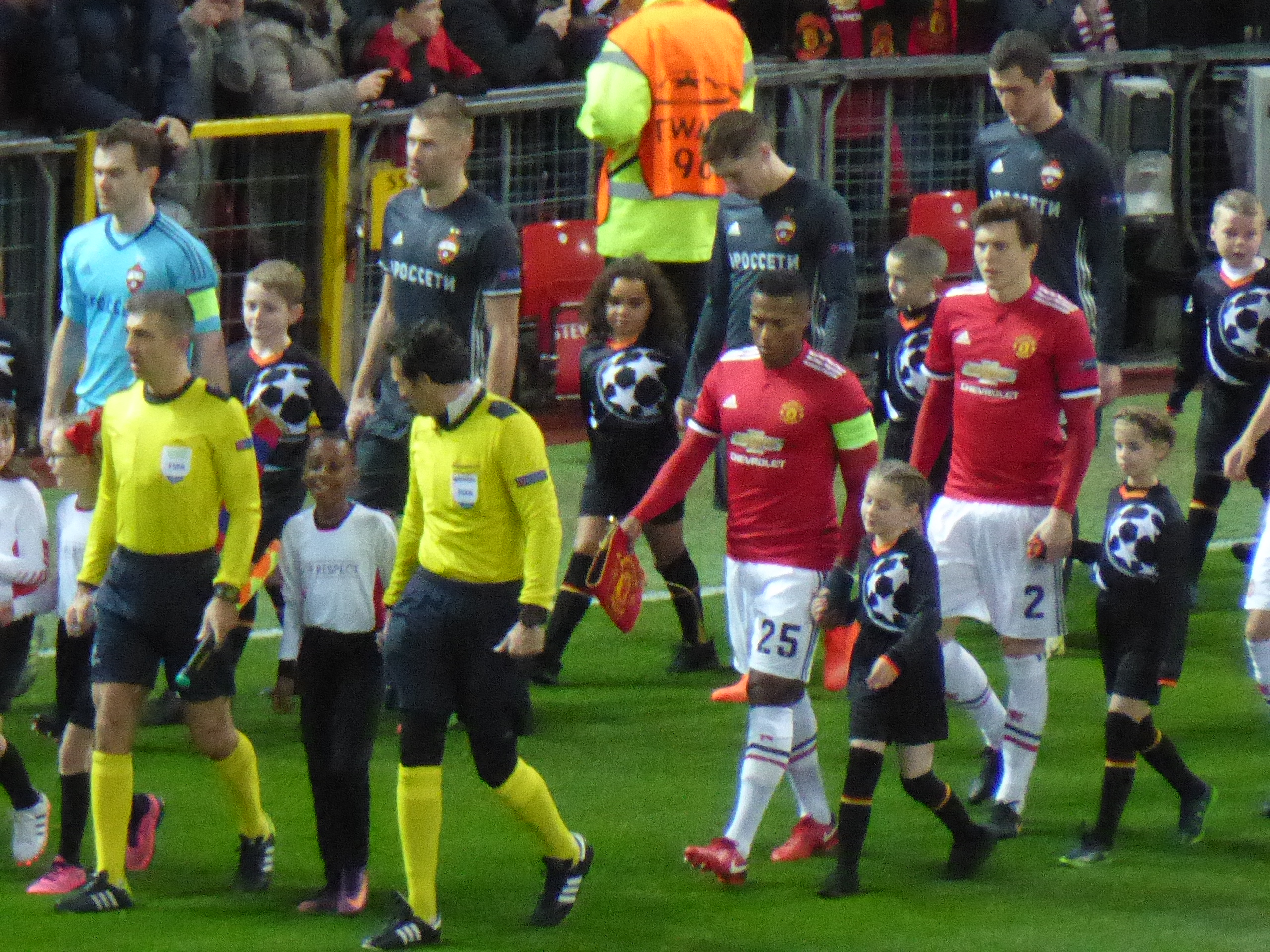 Manchester United v CSKA Moscow (2-1), UEFA Champions League, Old Trafford, Manchester, Greater Manchester, England, 5 December 2017